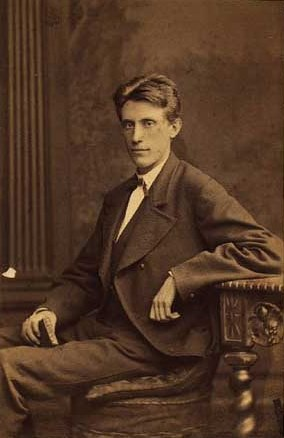 Frants Peter William Buhl (1850-1932), Danish theologian